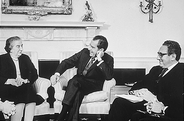 President Nixon, Henry Kissinger and Israeli Prime Minister Golda Meir, meeting in the Oval Office, 03/01/1973